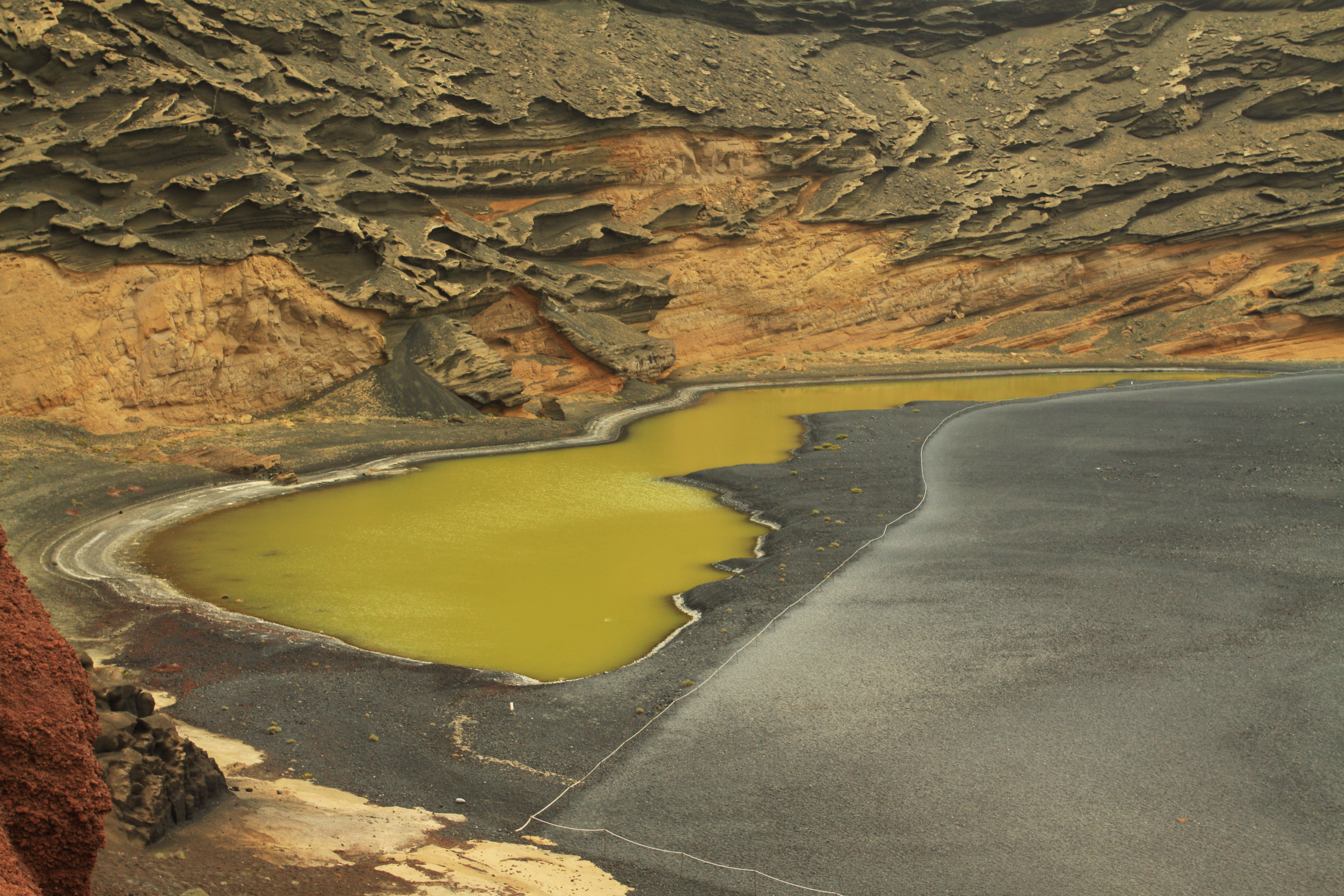 Charco de los Clicos on Lanzarote, The Canary Islands, Spain - OpenStreetMap(Info)